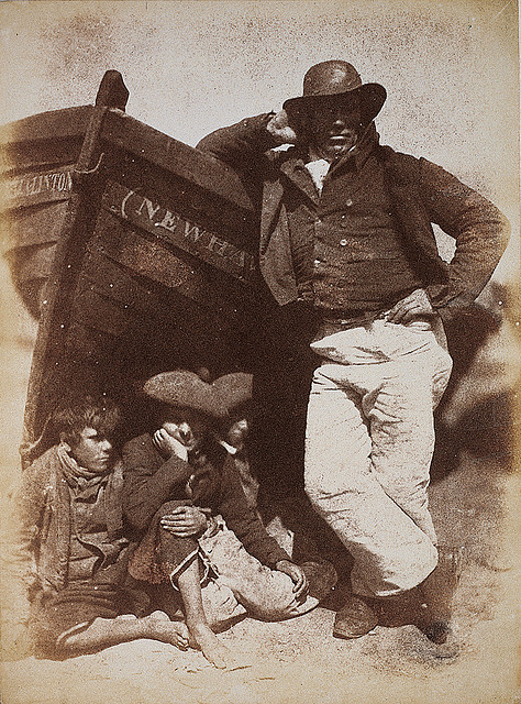 Robert Adamson, David Octavius Hill Accession no. PGP HA 770. Medium Calotype print. Size 19.50×14.20 cm. Credit Provenance unknown.